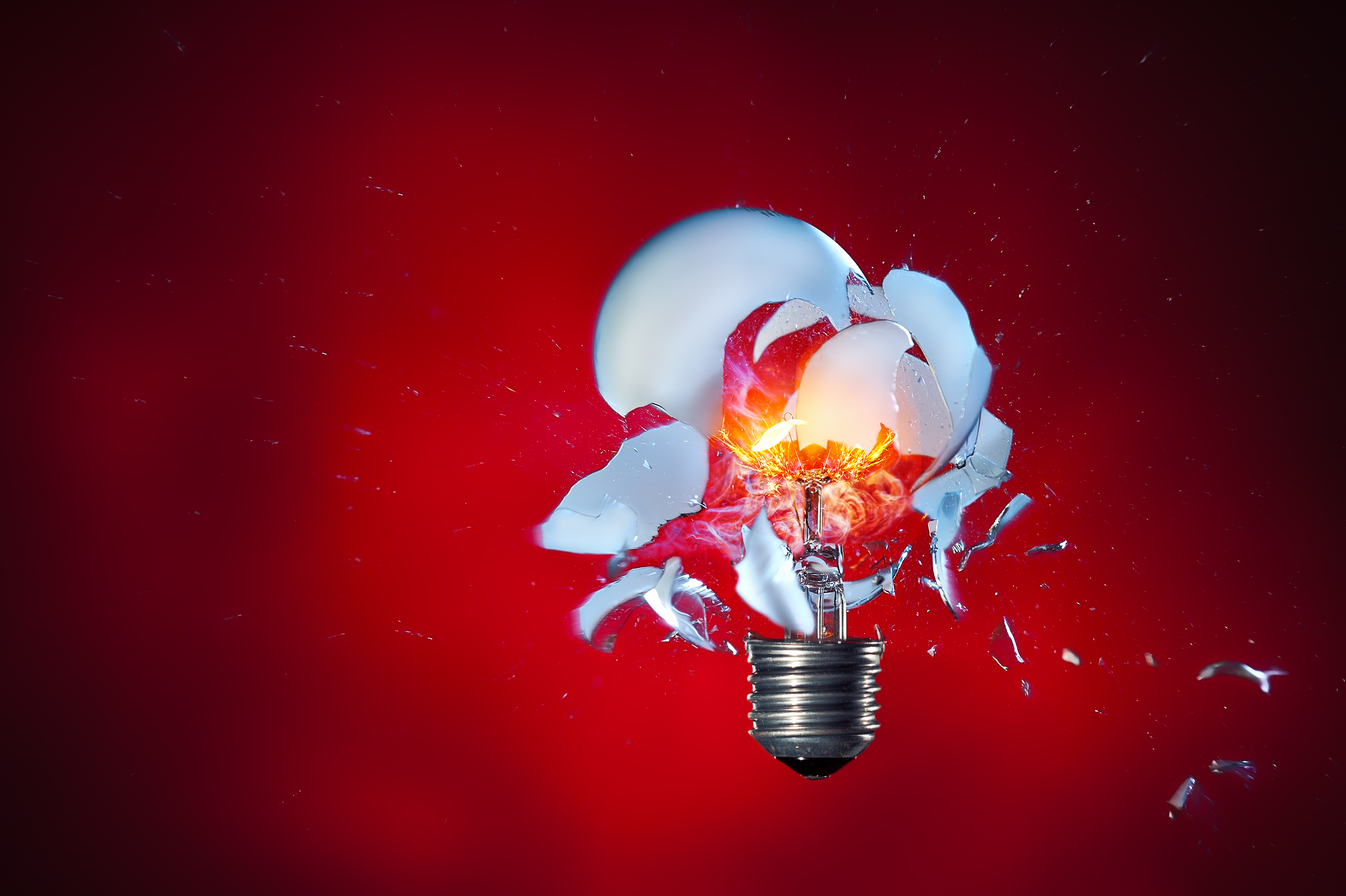 High-speed photography: A light bulb was shot with an airsoft pistol (positioned right of the lamp). The camera was triggered by a photocell, which was located in front of the pistol muzzle. Because of the low energy of the projectile, the bulb burst and only few fragments were swept away. This gives the impression that the bulb is exploding. The scenery was "frozen" with flash lamps which had flash durations of 1/6000-1/8000 seconds (depending on their power). The threaded base on the bulb was added later by digital photo editing, because having the bulb screwed into a lamp socket (see other versions below) made the image less impressive.